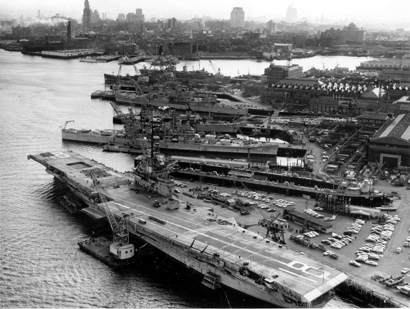 Aerial view of the the U.S. Navy Boston Naval Shipyard, Massachusetts (USA), looking Southwest, on 1 April 1960. The following ships are present (front to back): Pier 11: aircraft carrier USS Wasp (CVS-18); Dry Dock 5: floating dry dock ARD-16; in ARD-16: dry dock companion craft YFND-23; Pier 10: empty; Pier 9E: heavy cruiser USS Macon (CA-132); floating crane YD-196 Pier 9W: destroyer USS Hugh Purvis (DD-709); Pier 8E: cable laying and repair ship USS Thor (ARC-4); floating pile driver YPD-24; Pier 7E: guided missile cruiser USS Springfield (CLG-7); Pier 7W: empty; Pier 6E: destroyer USS Perry (DD-844); Pier 6W: destroyer leader USS Mitscher (DL-2); Pier 5E: guided missile cruiser USS Albany (CG-10); Pier 5W: destroyer tender USS Yosemite (AD-19); Pier 4E: empty; Pier 4W: radar picket ship USS Skywatcher (AGR-3).